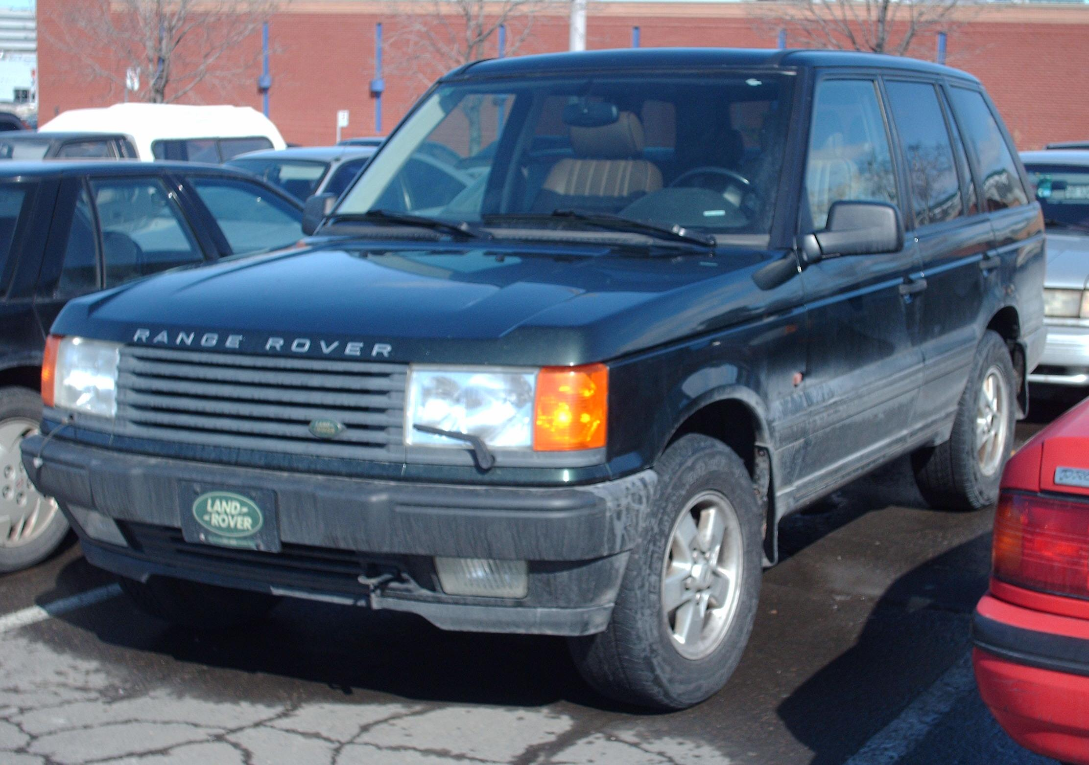 1995-2002 Land Rover Range Rover photographed in Montreal, Quebec, Canada.